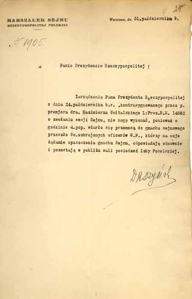 The official letter from the Sejm's speaker Ignacy Daszyński to president Ignacy Mościcki. Ignacy Daszyński informs that some officers have appeared in the Sejm building. They refuse to leave the building which makes opening the Sejm session impossible.